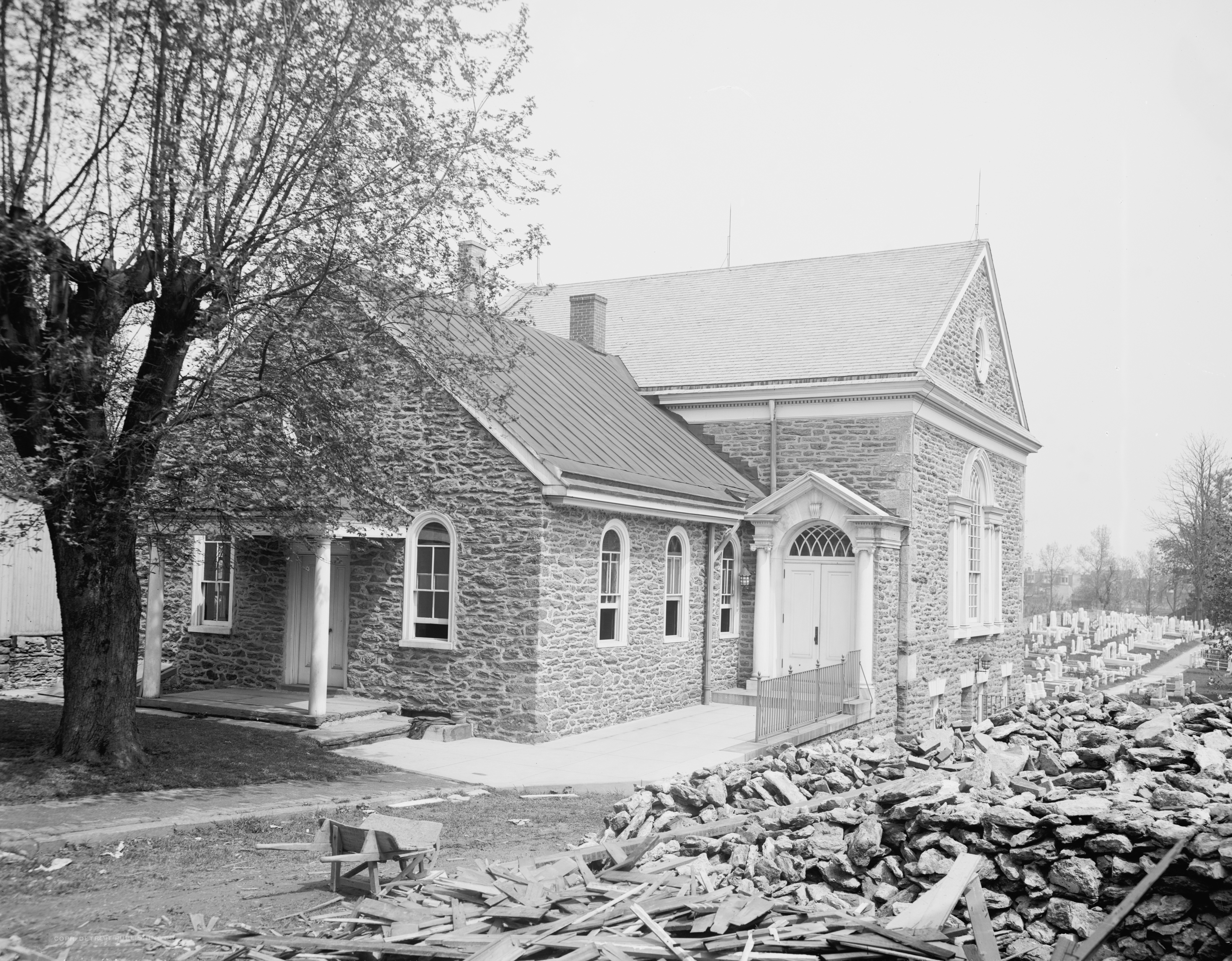 Old Dunkard church [i.e. Church of the Brethren], Germantown, Pennsylvania. At 6611 Germantown Avenue (between Montana and Sharpnack Streets) Building still there. Church website